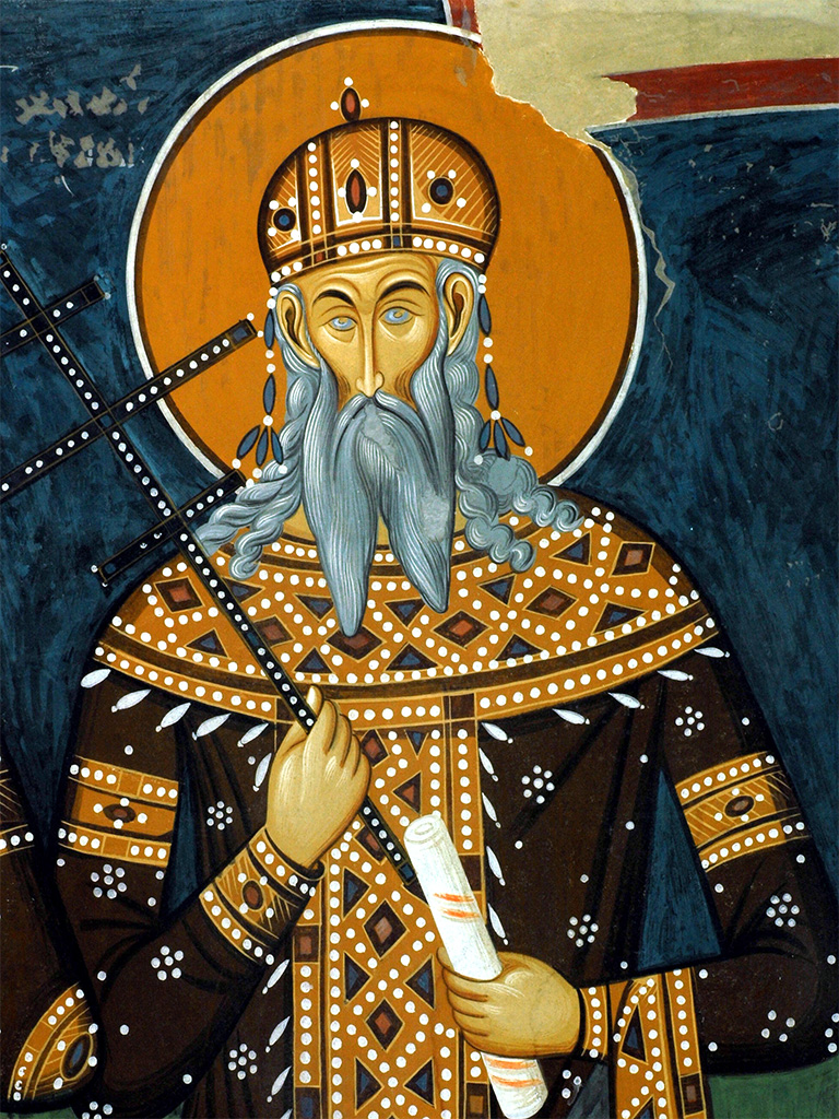 The fresco of king Volkašin Mrnjavčević, Psača monastery, Macedonia